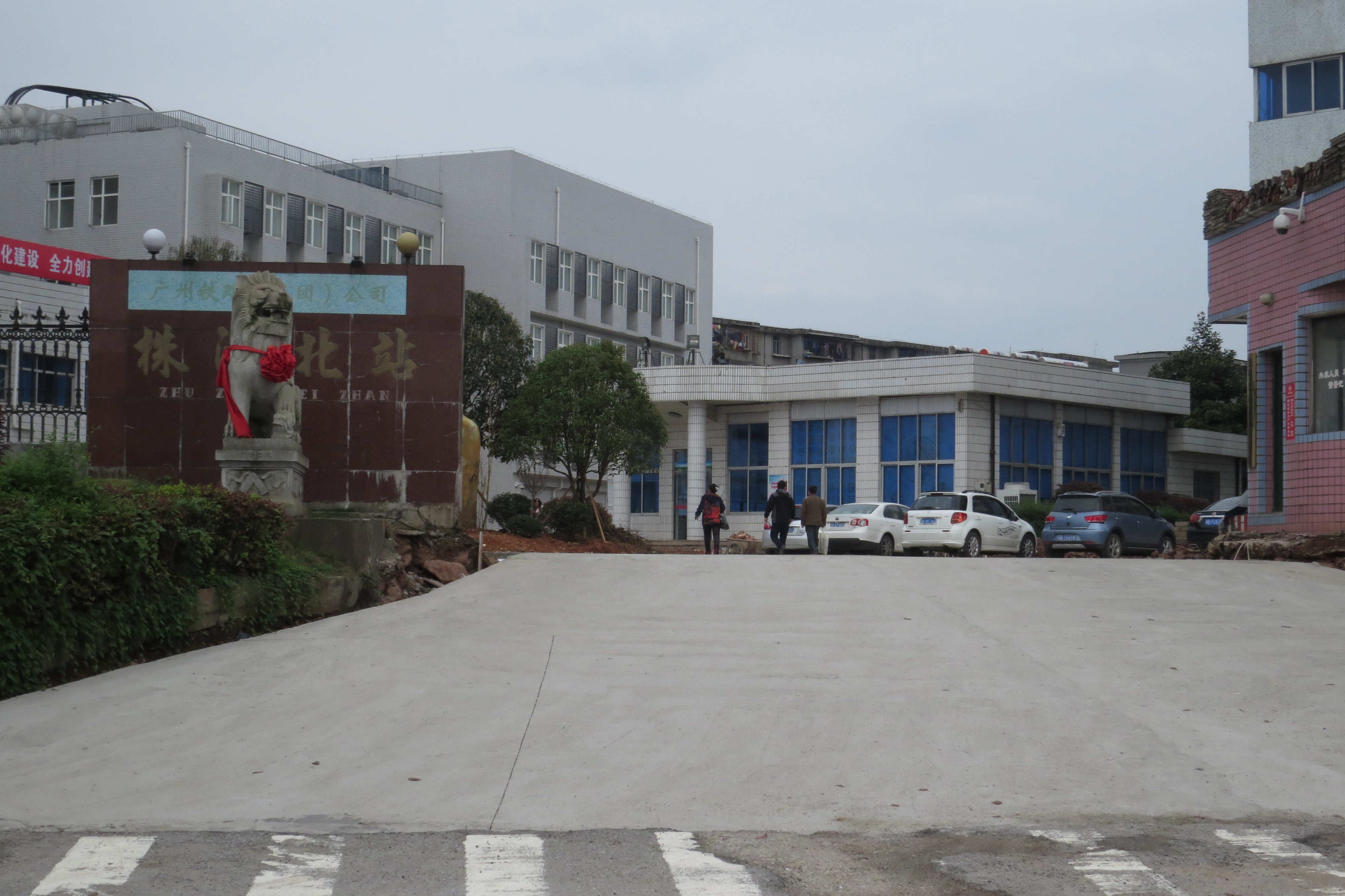 And this is the gate on Beizhan Rd.